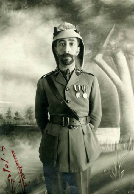 King Faisal I of Syria.